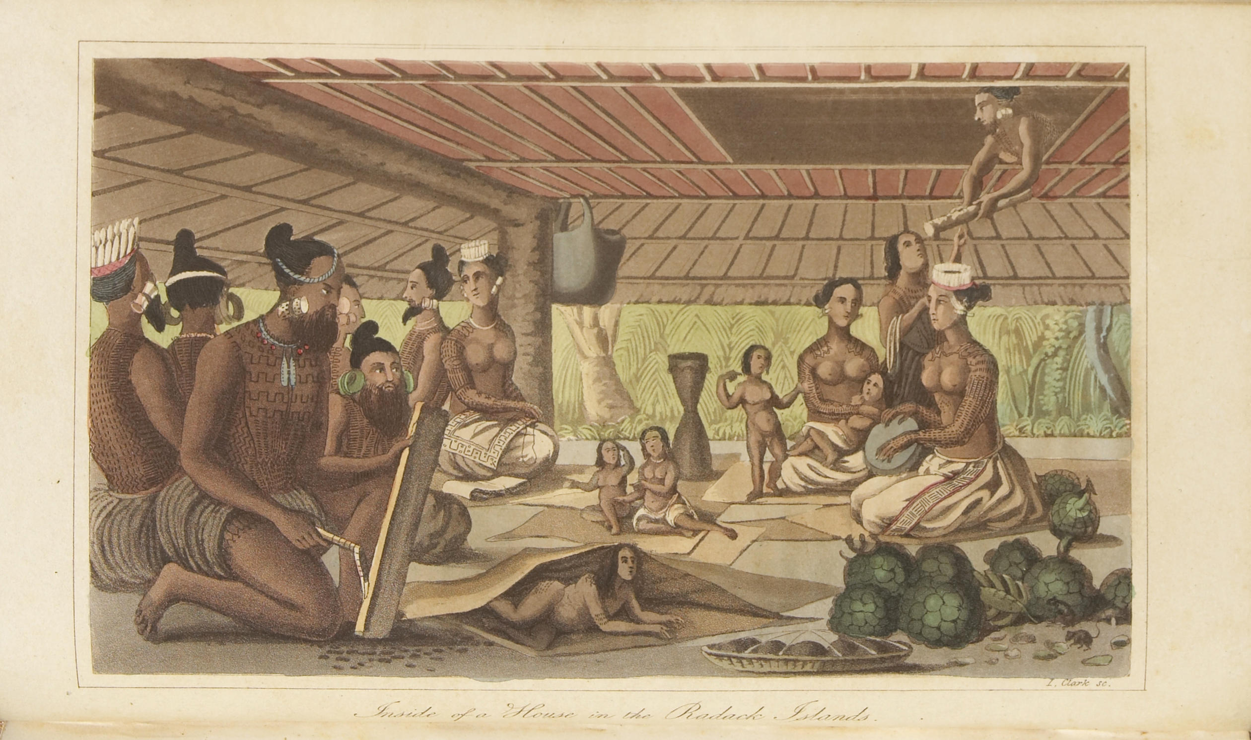 Inside of A house in the Radack Islands. Aquatint printed in brown. 1821. 140mm by 220mm (platemark).